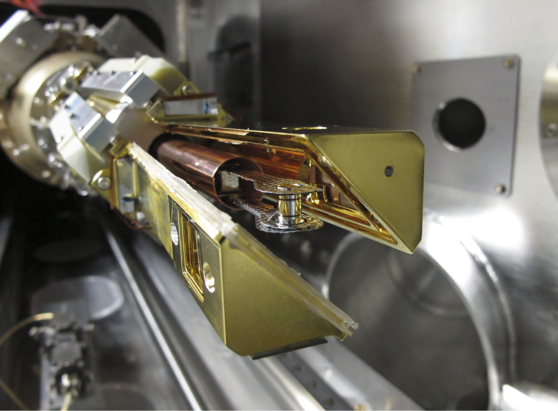 The NIF target before the shot. It is mounted in the cryogenic target positioning device. The two copper-colored arms form a shroud around the cold target to protect it until they open eight seconds before a shot.